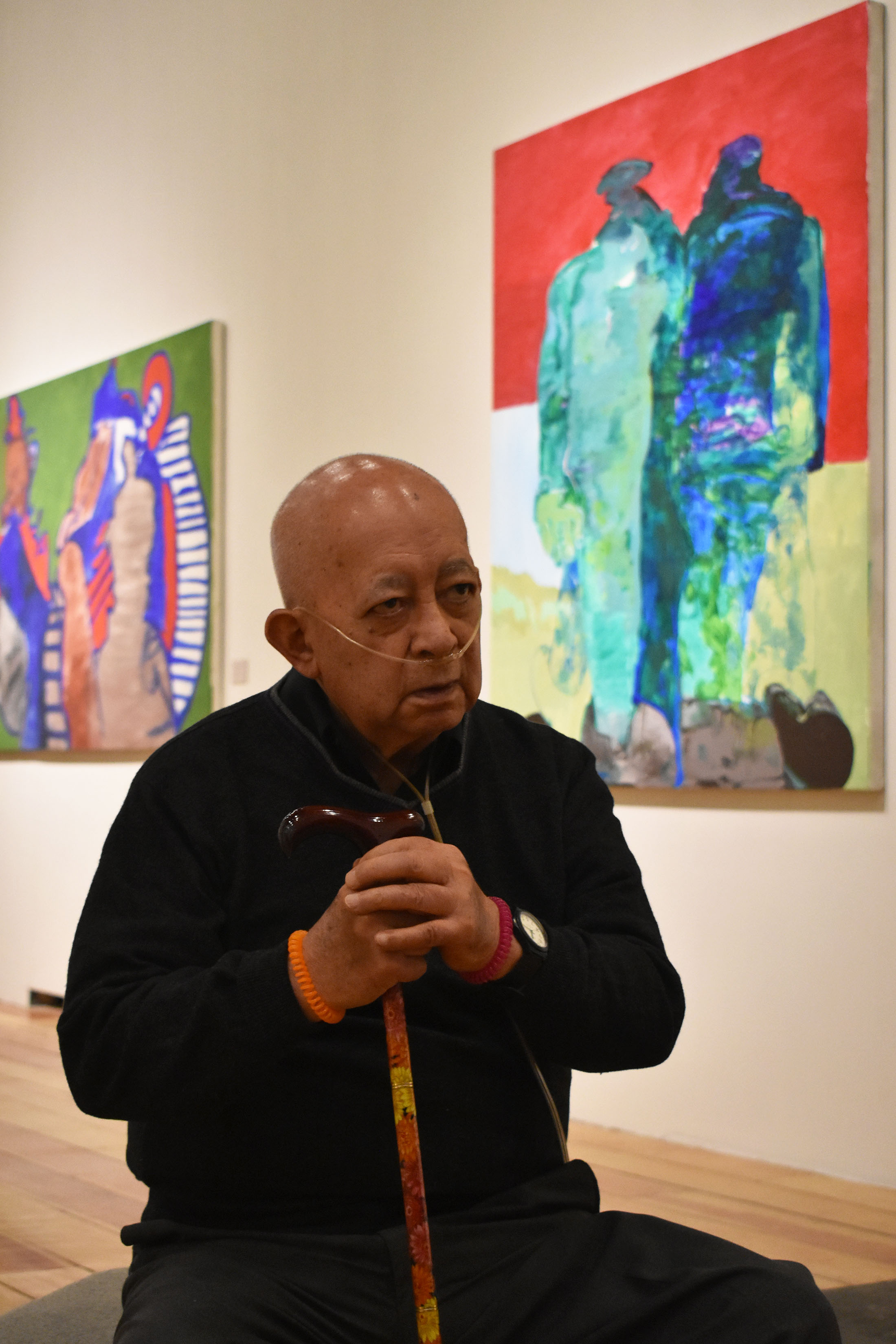 Gilberto Aceves Navarro at a preview of his show in Mexico City. Wednesday, 3 July, 2019. Picture by Tiare Garcia / Secretaria de Cultura de la Ciudad de Mexico.